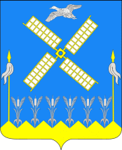 Coat of arms of Kopanskaya, Yeisk Raion, Krasnodar Krai, Russia